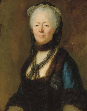 Portrait of Maria Antonia of Bavaria (1724-1780)